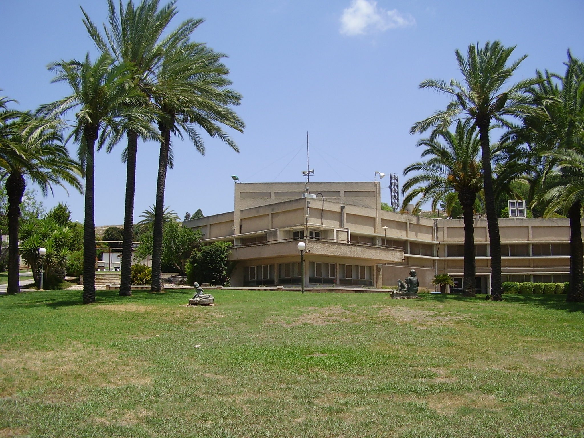 palms avenue and old dining house in kibbutz tel-yosef